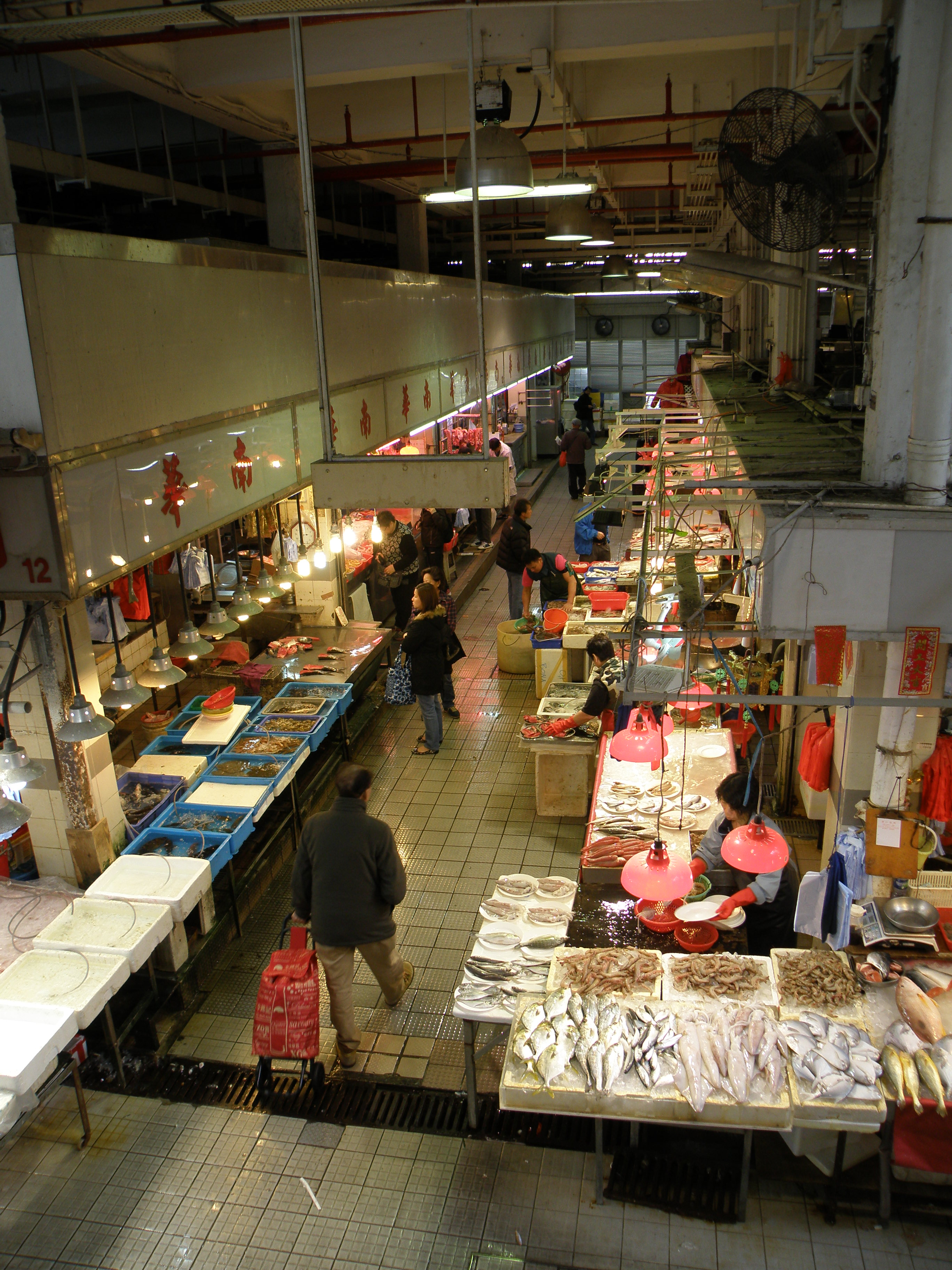 Wah Fu (I) Market in Pok Fu Lam, Hong Kong.